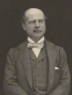 Hudson E. Kearley